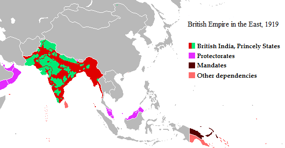 Map of British Empire in the East, showing British India (red) and the princely states of India (green), British protectorates (purple) and dependencies (pink), and the Australian League of Nations mandate of New Guinea (black).